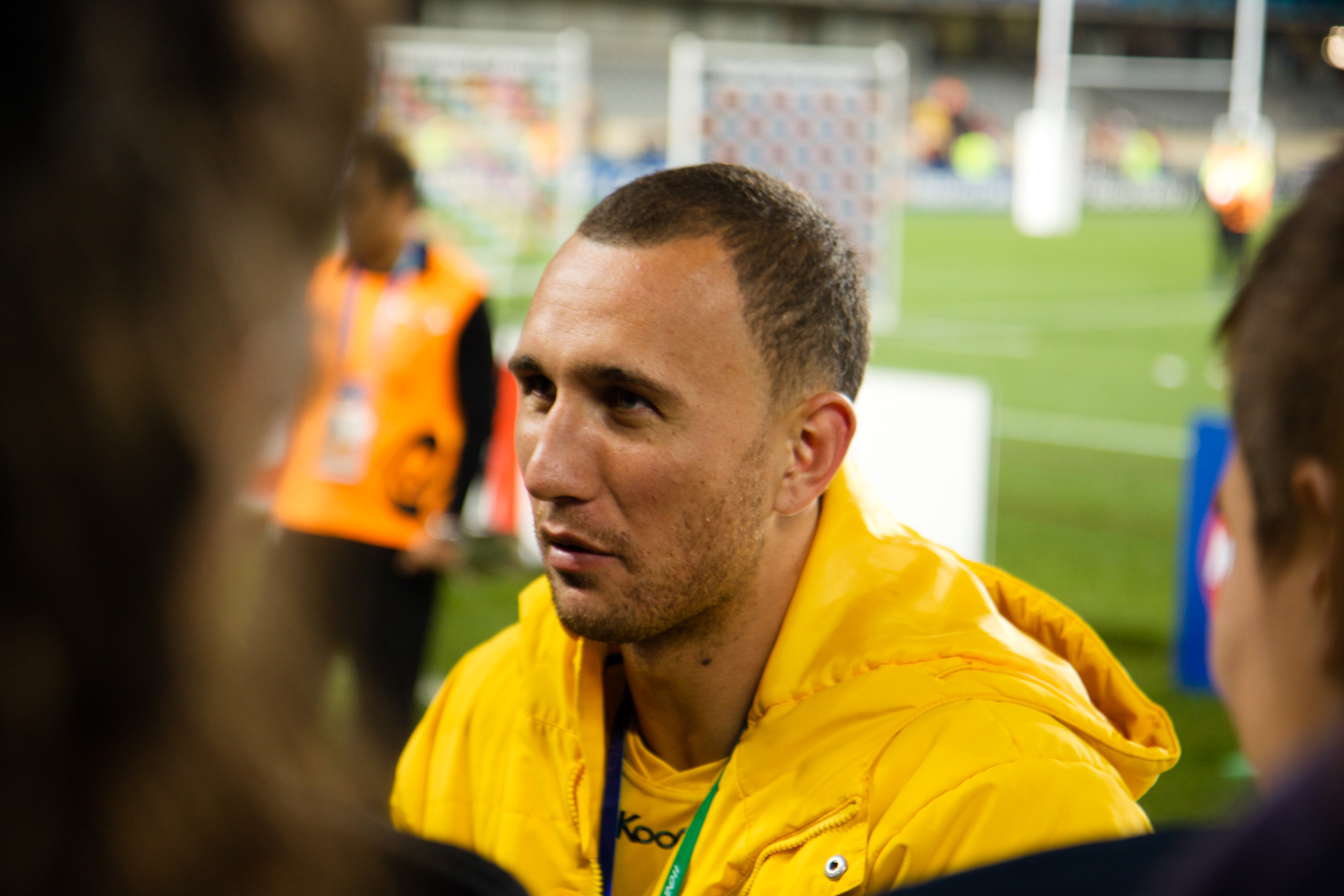 New Zealand-born Australian rugby union player Quade Cooper after Bronze Final against Wales at 2011 Rugby World Cup.